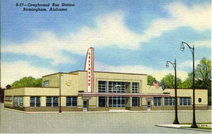 B-57, Greyhound Bus Station